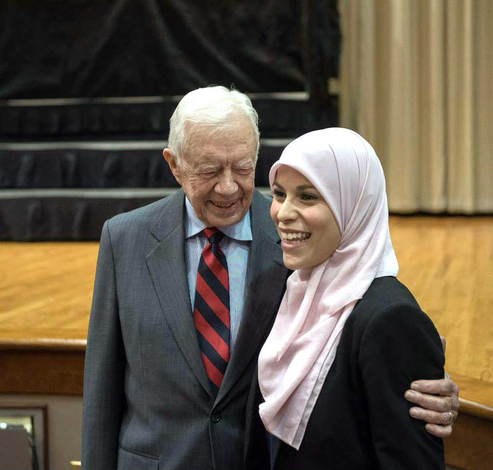 President Jimmy Carter and Dr. Alaa Murabit